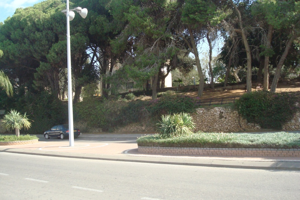 Holon, Plants of Israel